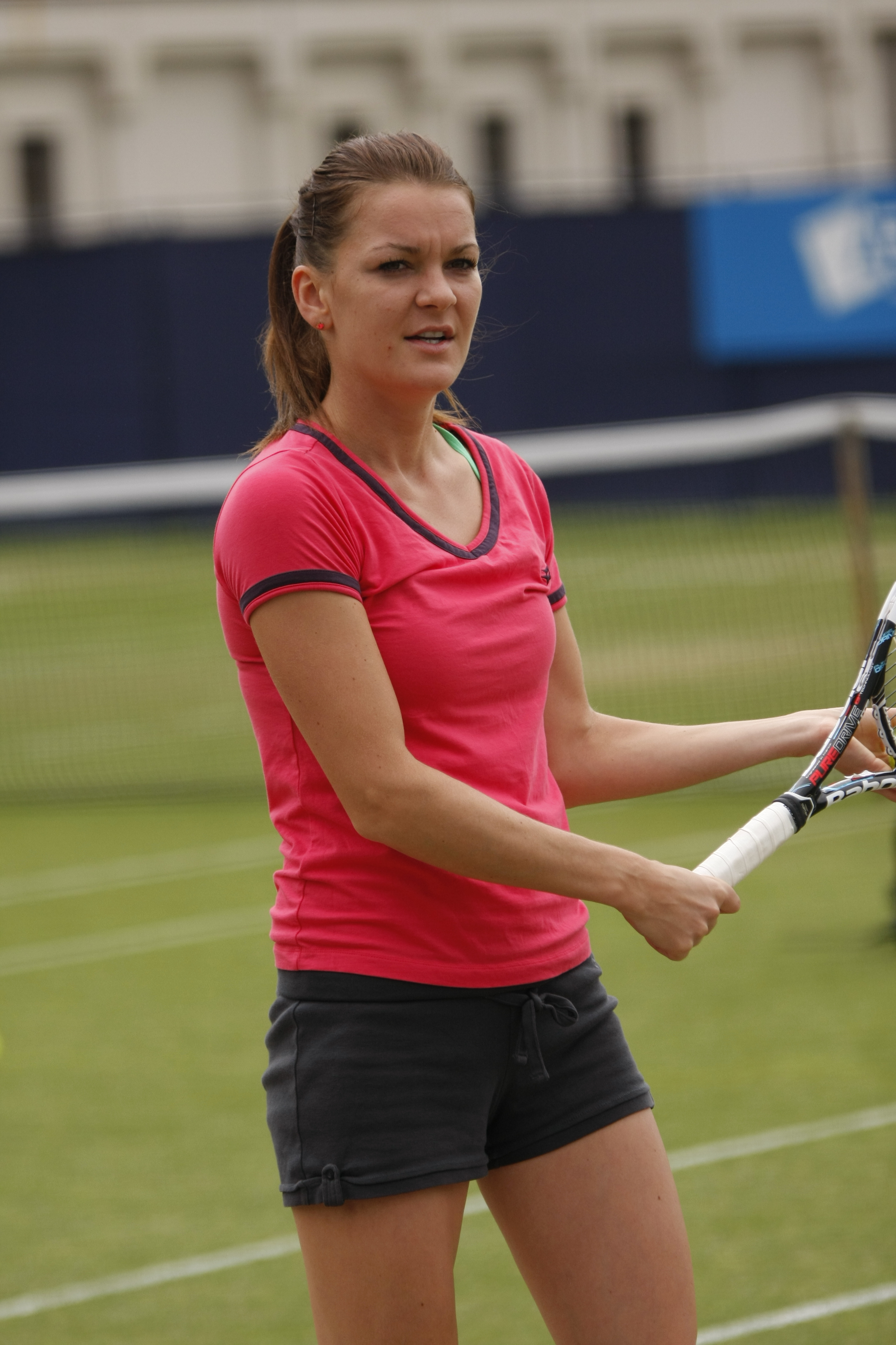 Radwanska at the Aegon International Tennis, June 2014